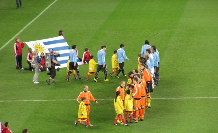 06 July 2010 - Netherlands vs Uruguay in the 2010 Fifa World Cup.